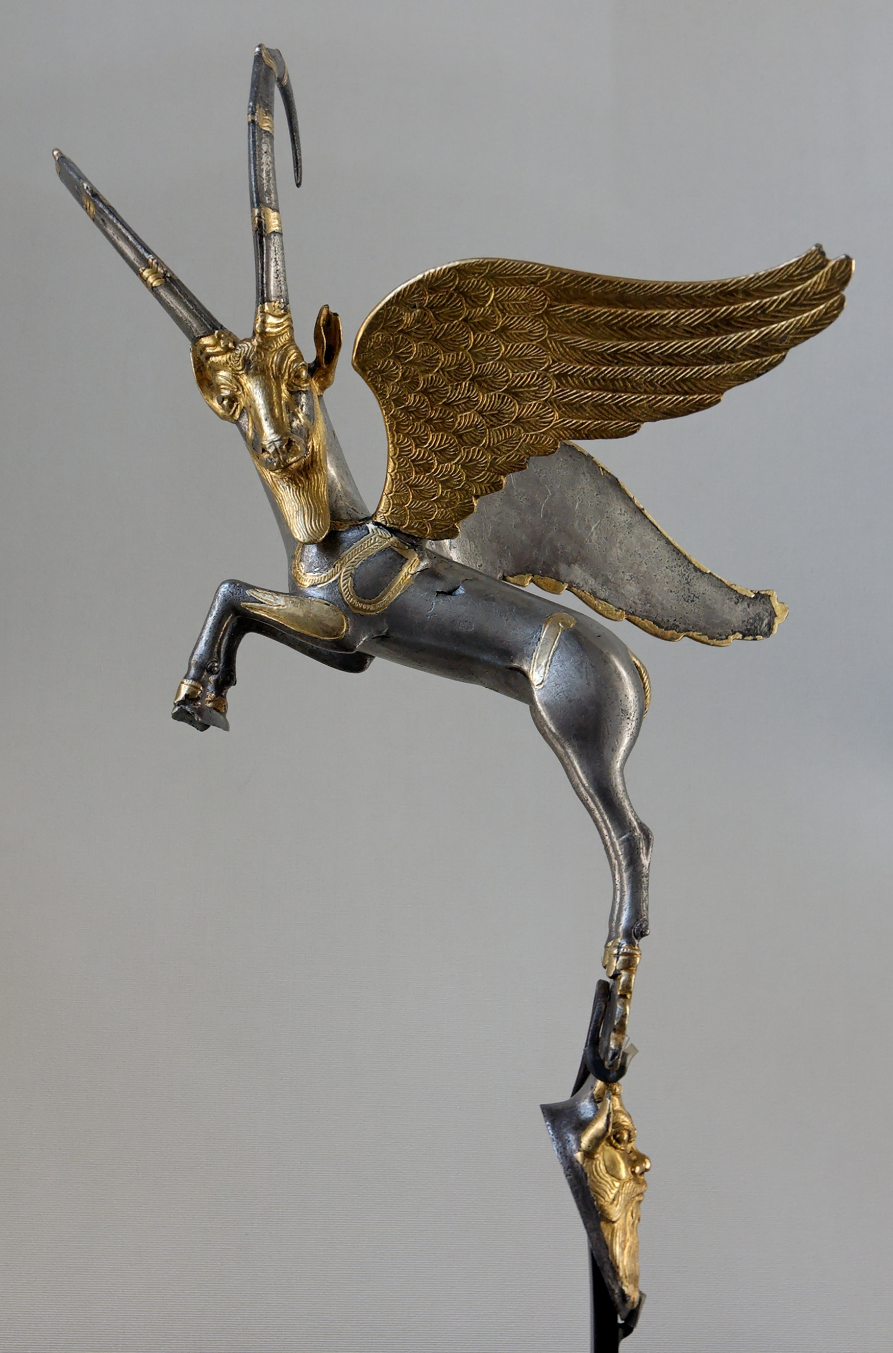 Vase handle in the form of a winged ibex. Partly gilt silver, Achaemenid artwork, 4th century BC.